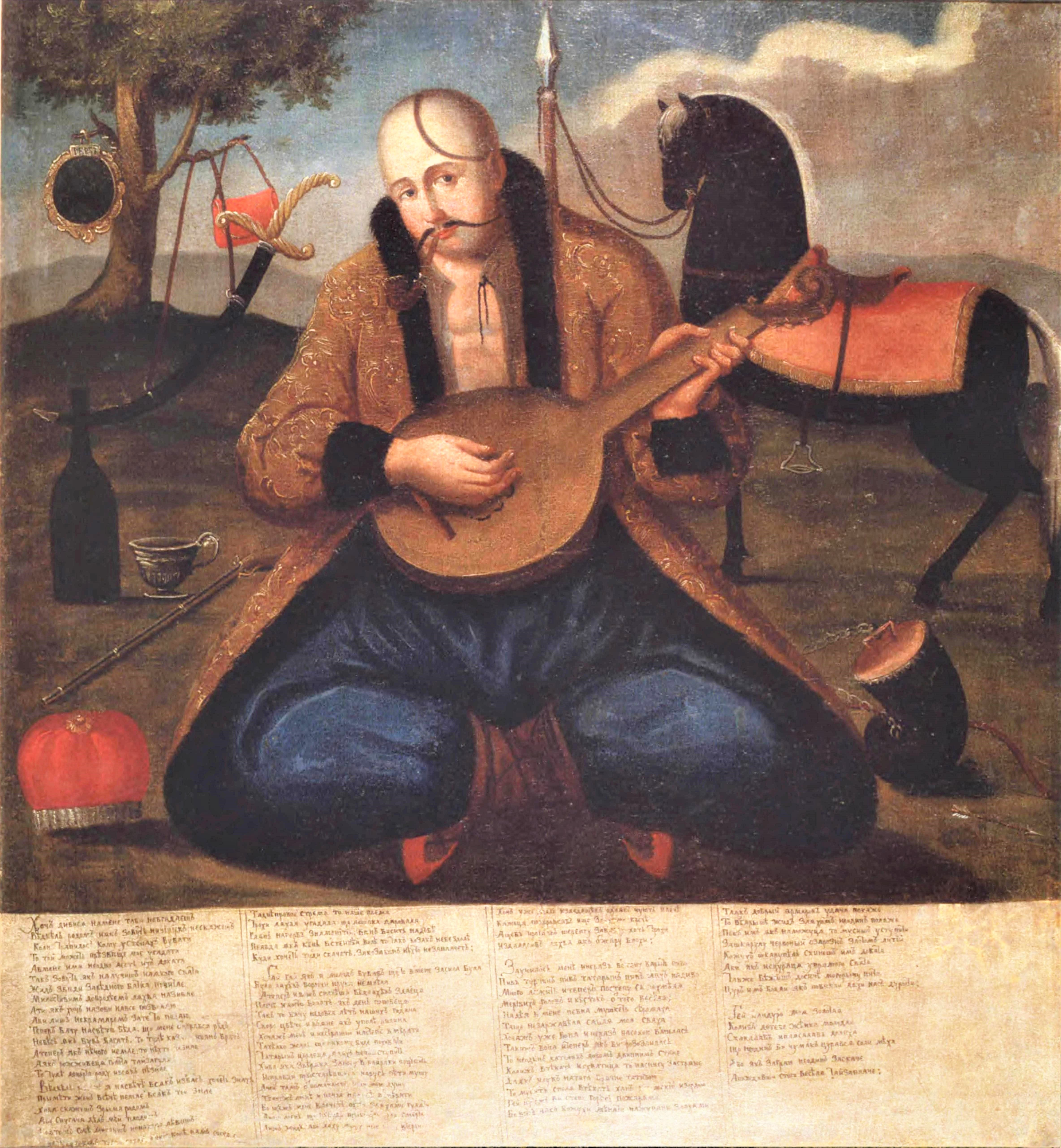 Unknown painter. Kozak-banduryst (Cossack Mamay). Early XIX century. Canvas, oil. 113x104. Currently held at: National Art Museum of Ukraine